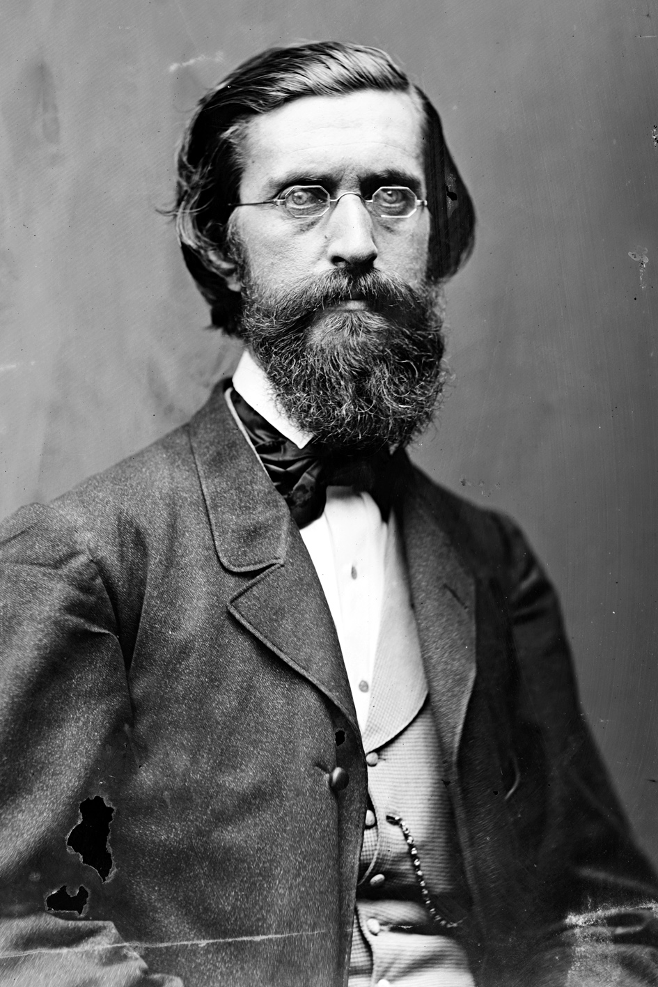 Dwight Loomis, US Representative from Connecticut